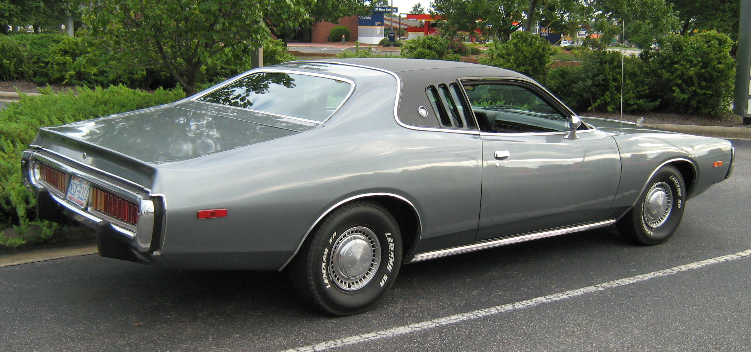 1973 Dodge Charger SE (side)